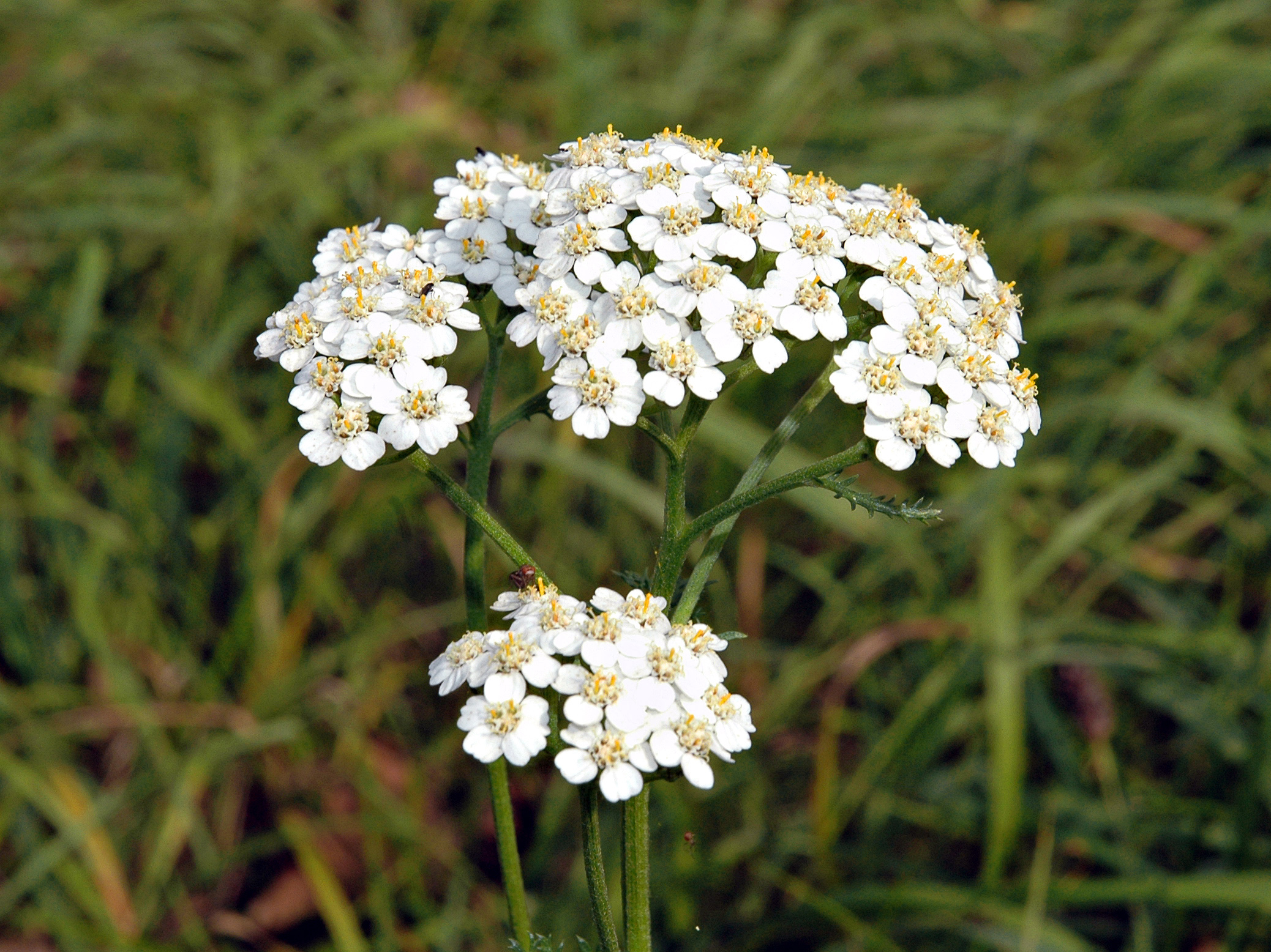 This image shows the White Yarrow (Achillea millefolium) and has been fotographed in Zwickau (Saxony, Germany).